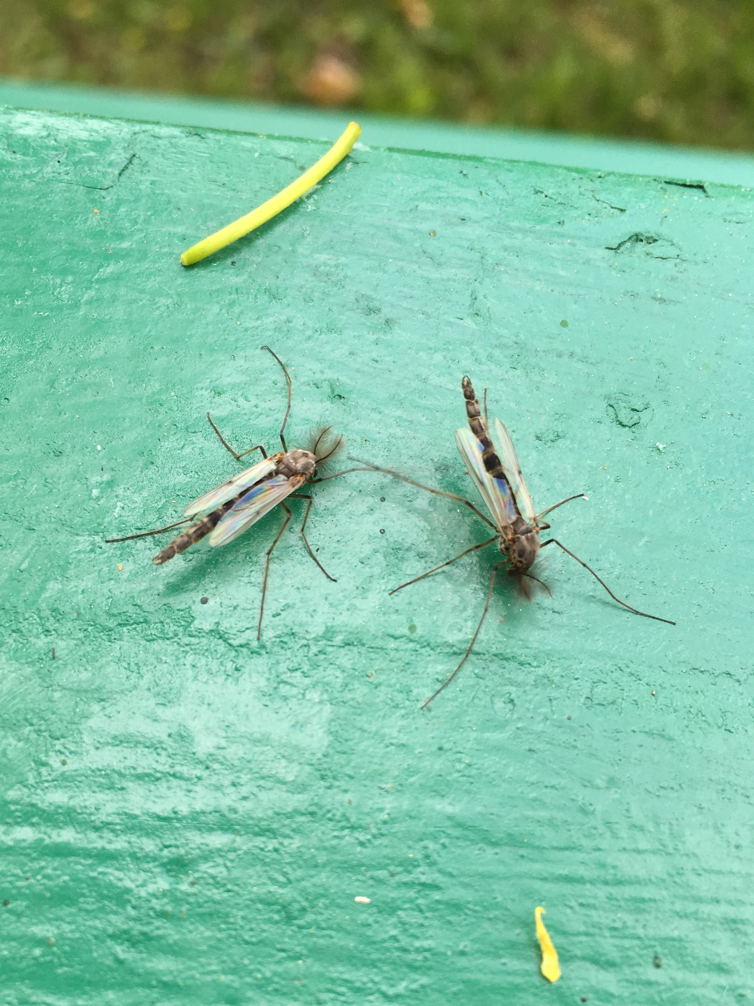 Two Lake Flies sitting on a picnic table. Found in Riverside Park, Neenah, Wisconsin.